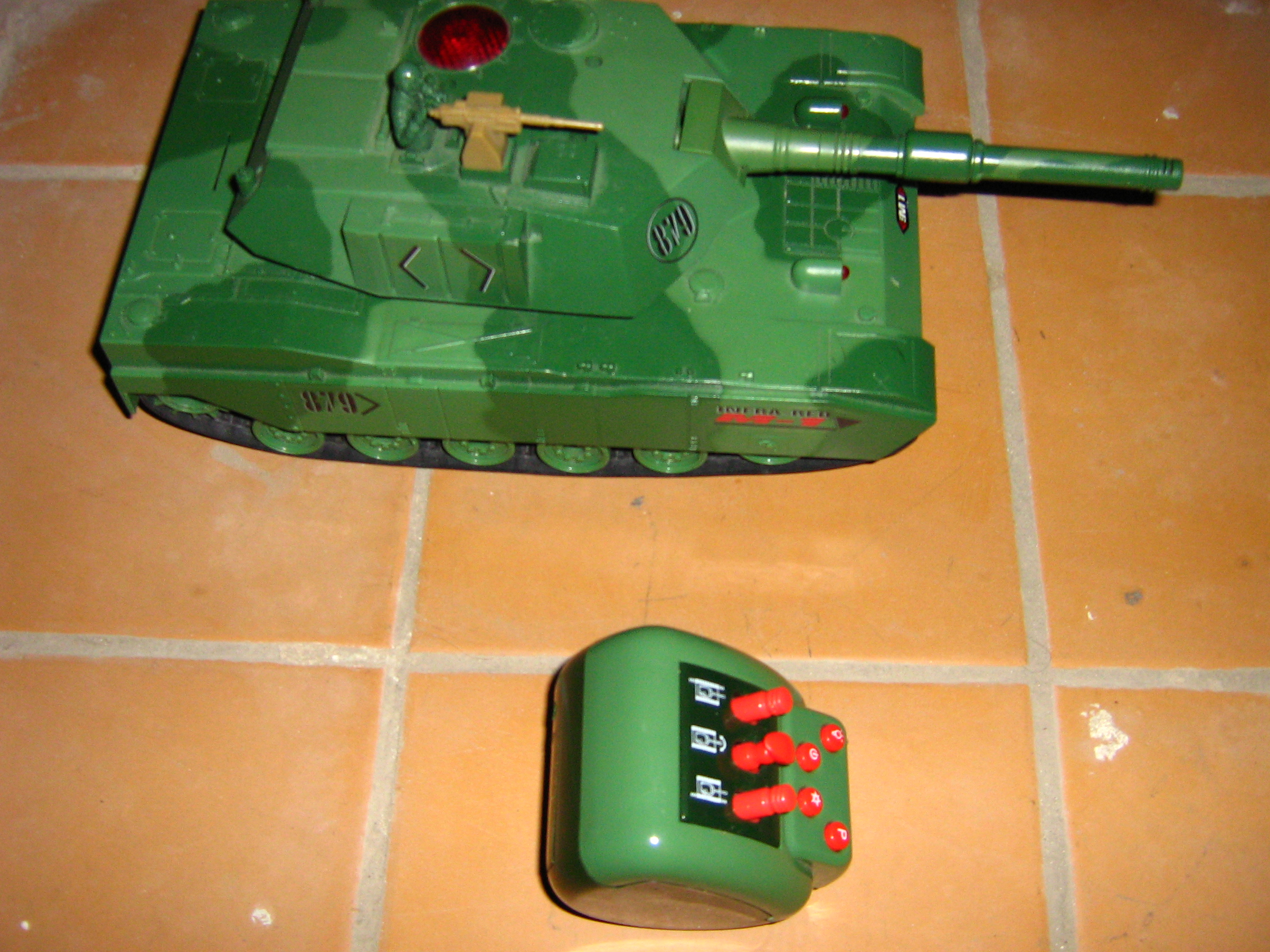 Tank toy radio. Nearby lies the remote control.